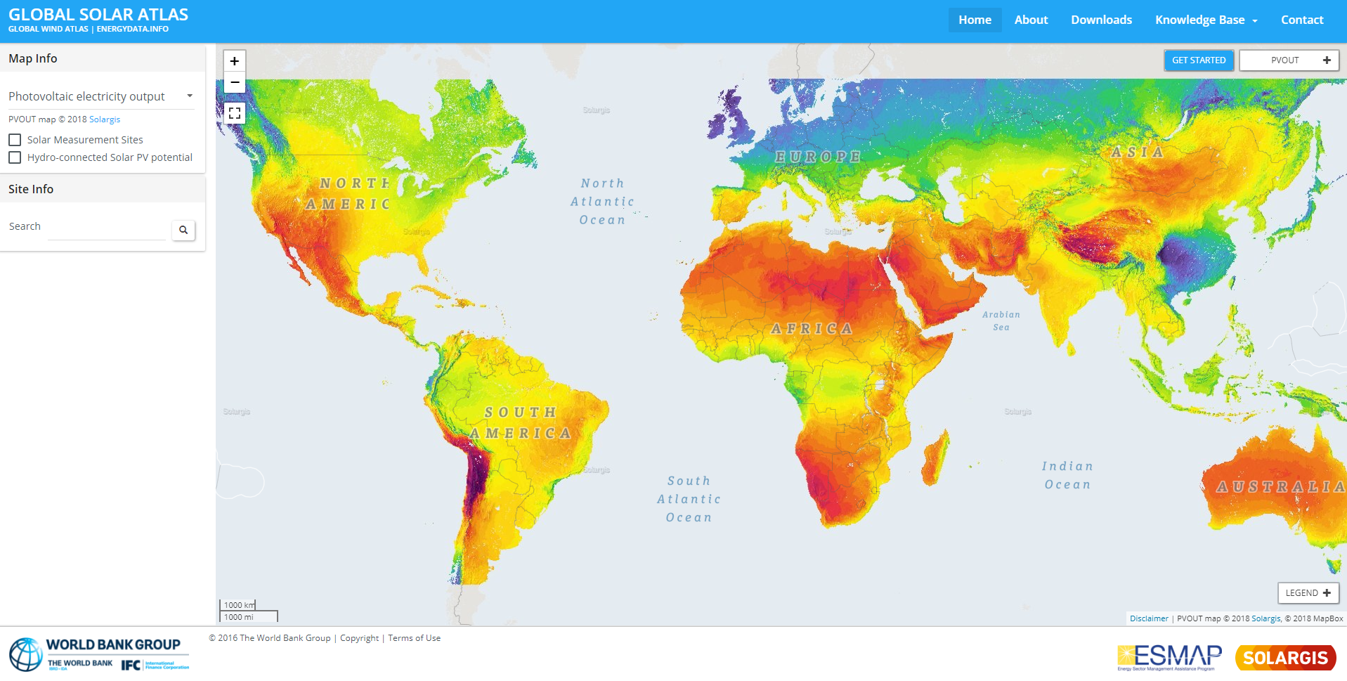 Screenshot of the Global Solar Atlas website (version 1.0)